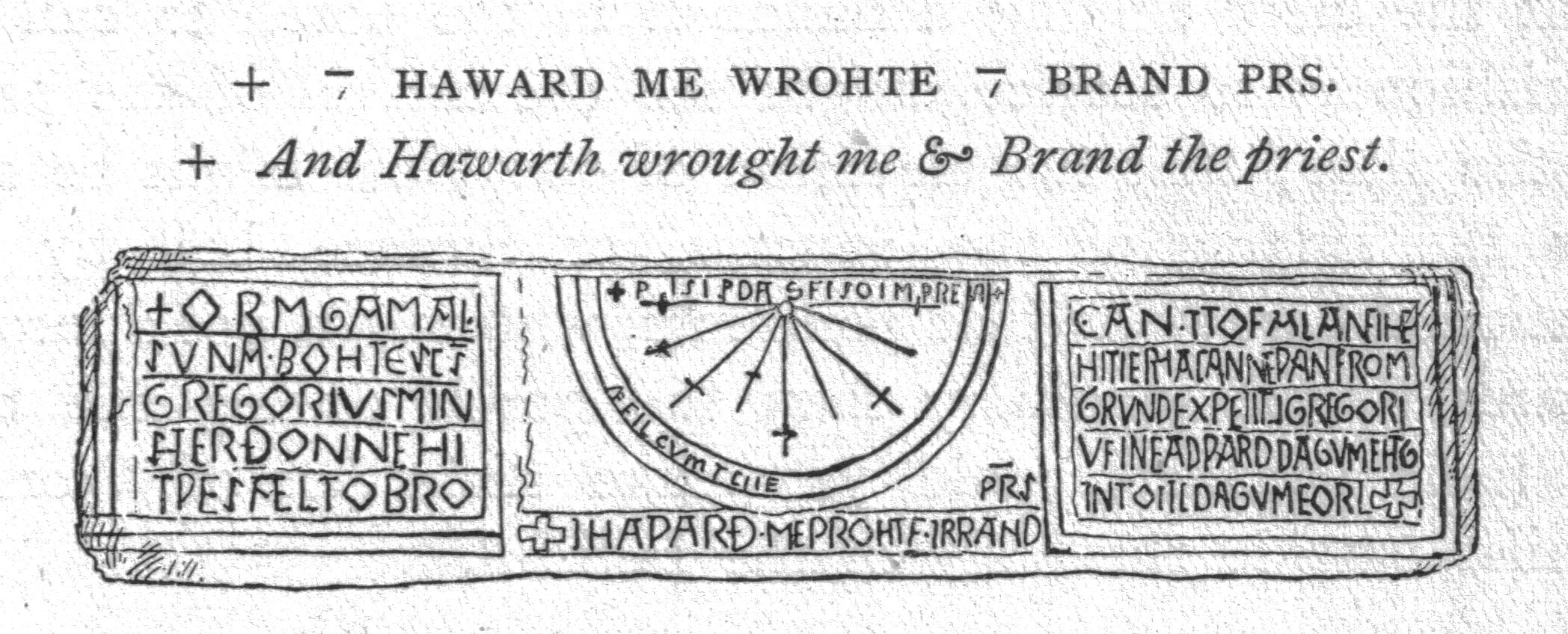 St Gregory's Minster, Kirkdale, North Yorkshire: Saxon Mass dial